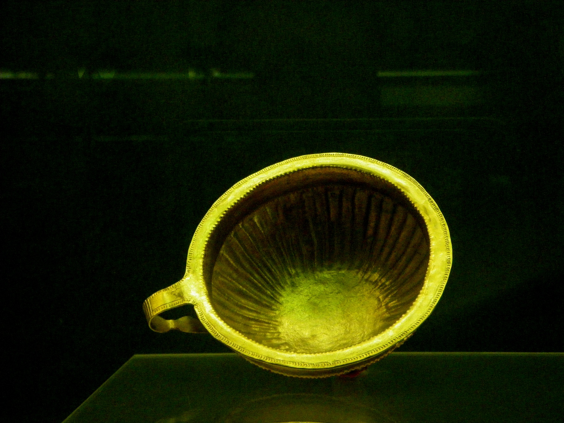 Naturhistorisches Museum Wien Dacian Gold